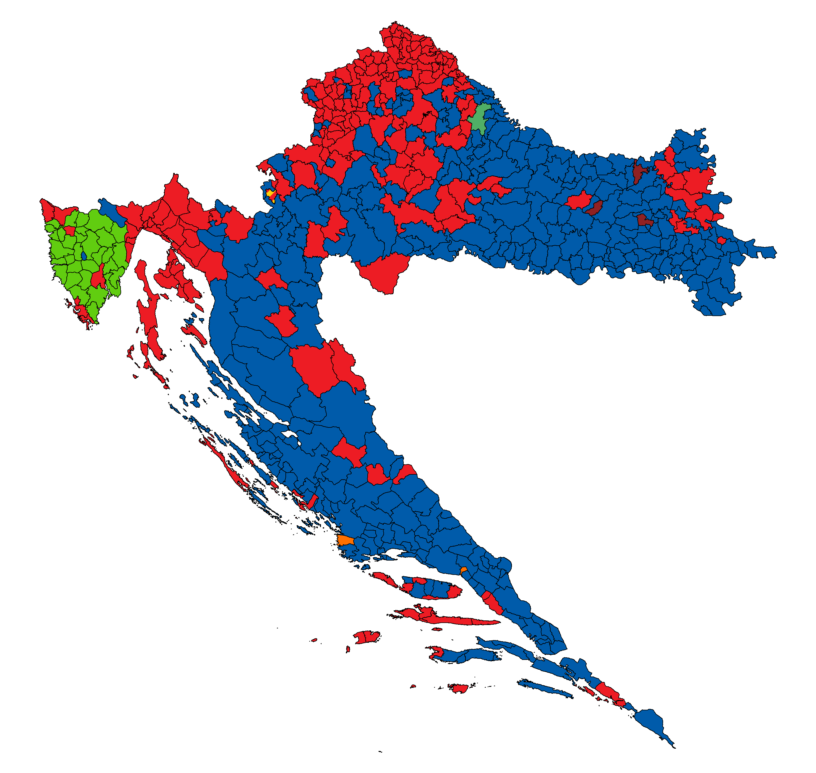 2015 election results for the Croatian Parliament, based on the majority of votes in each municipality of Croatia